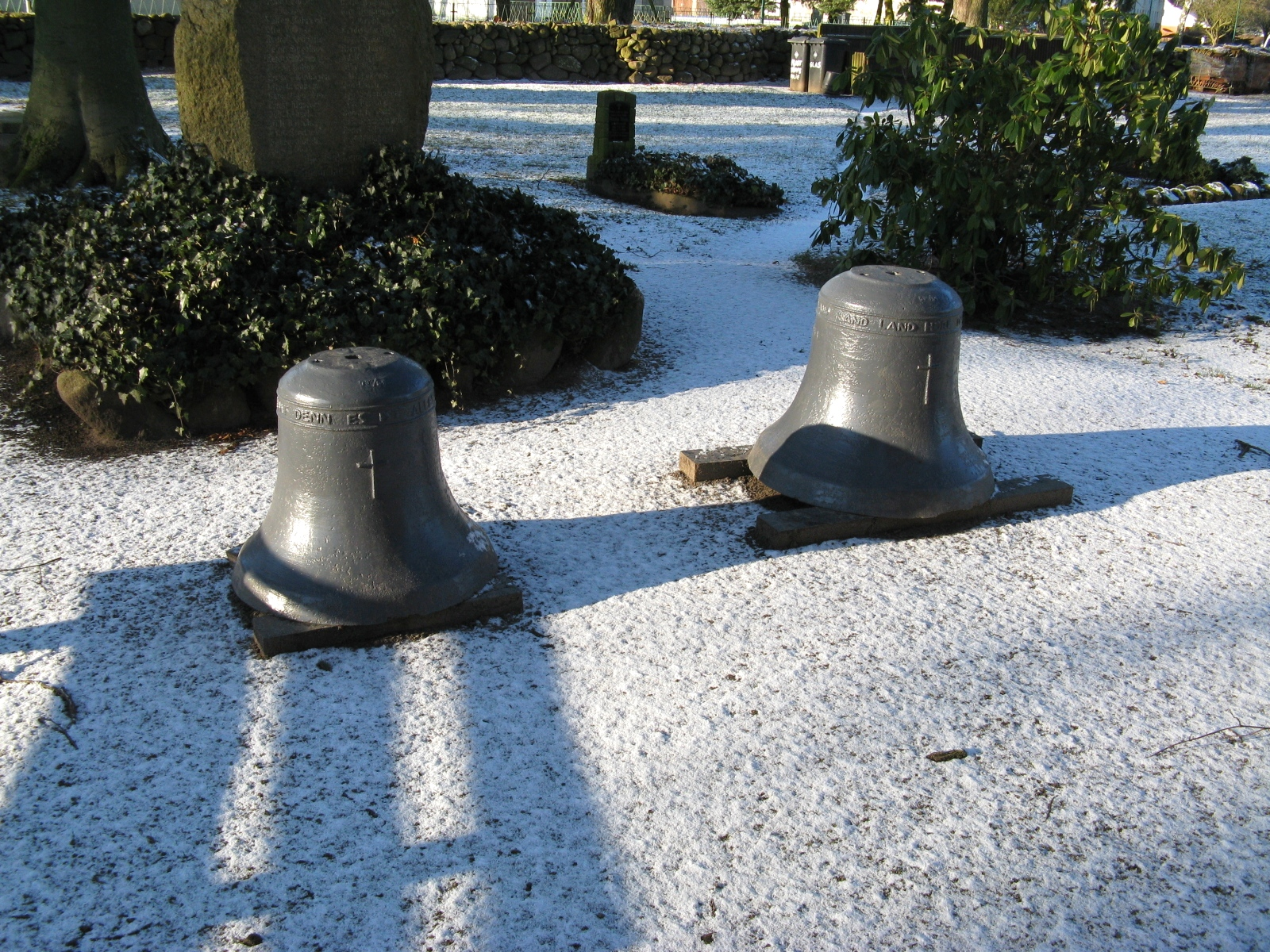 Old church bells in front of the church in Pokrent, Mecklenburg-Vorpommern, Germany